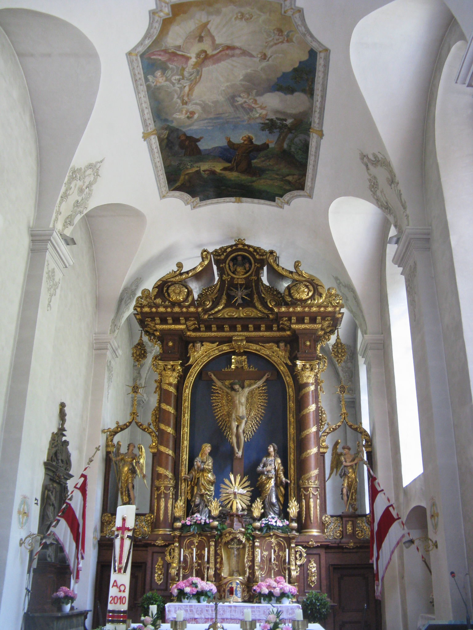 Holy Kreuzberg, monastery church (Rhön/Germany)